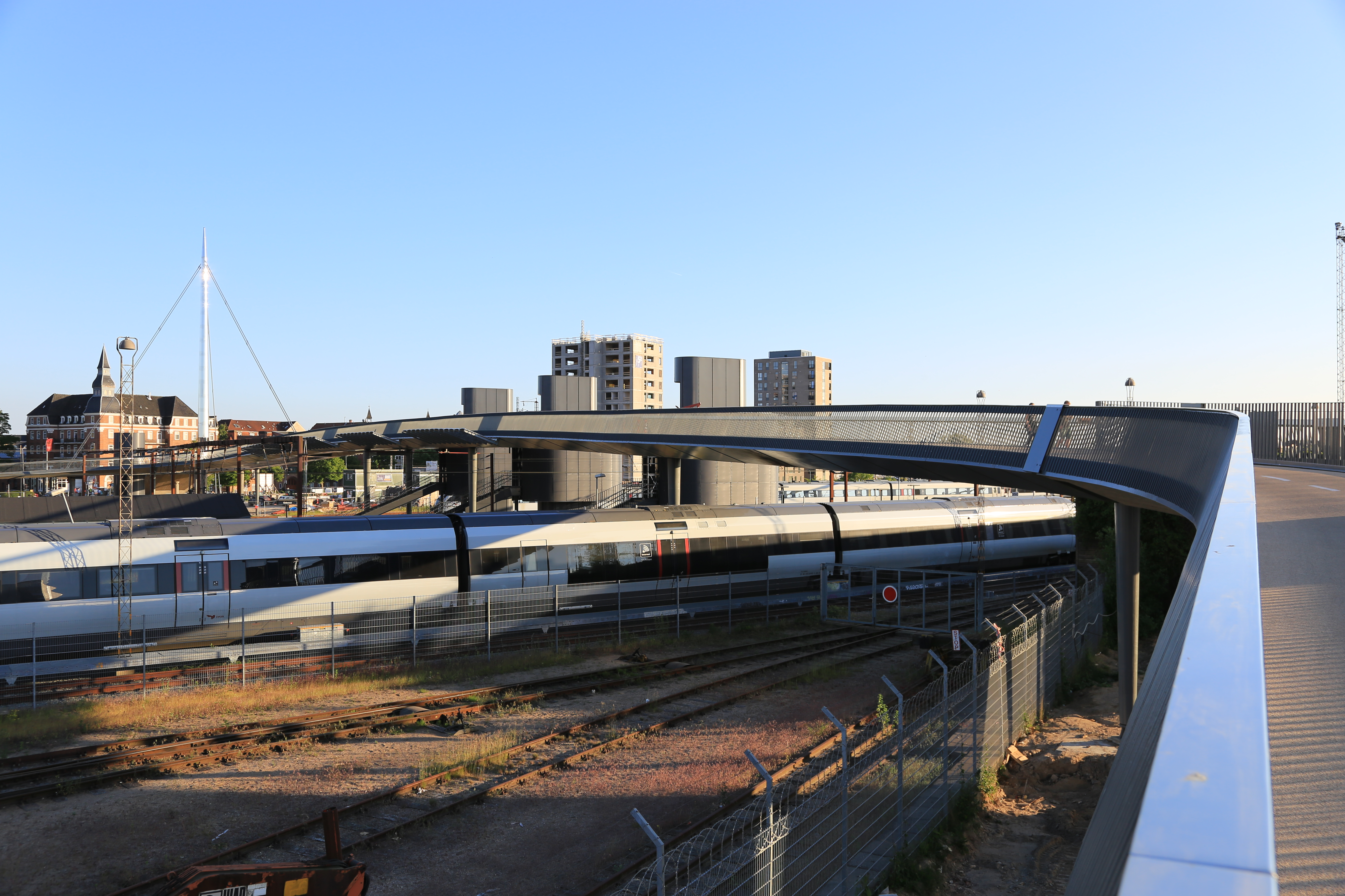 Byens Bro (The City's Bridge) in Odense, Denmark, seen towards south. It crosses the railway tracks at Odense railway station. In the background to the left, Hotel Plaza and the bridge's pylon.